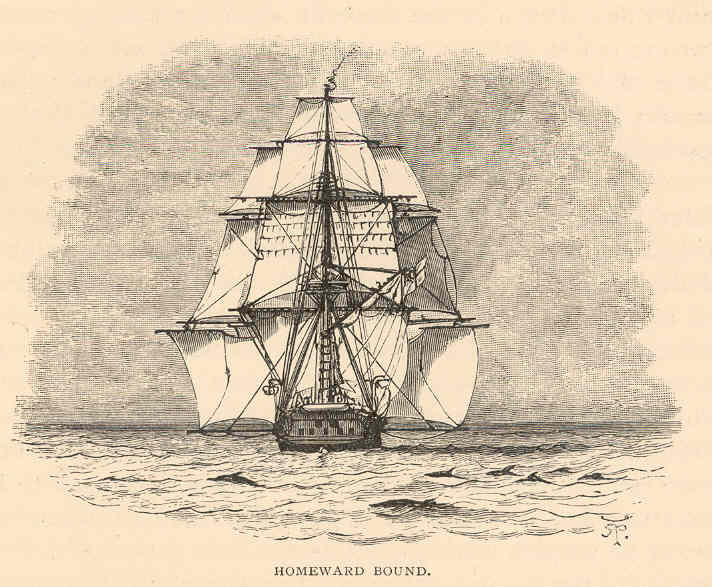 Homeward Bound Subject: Beagle (Ship), Sailing ships Tag: Vessels